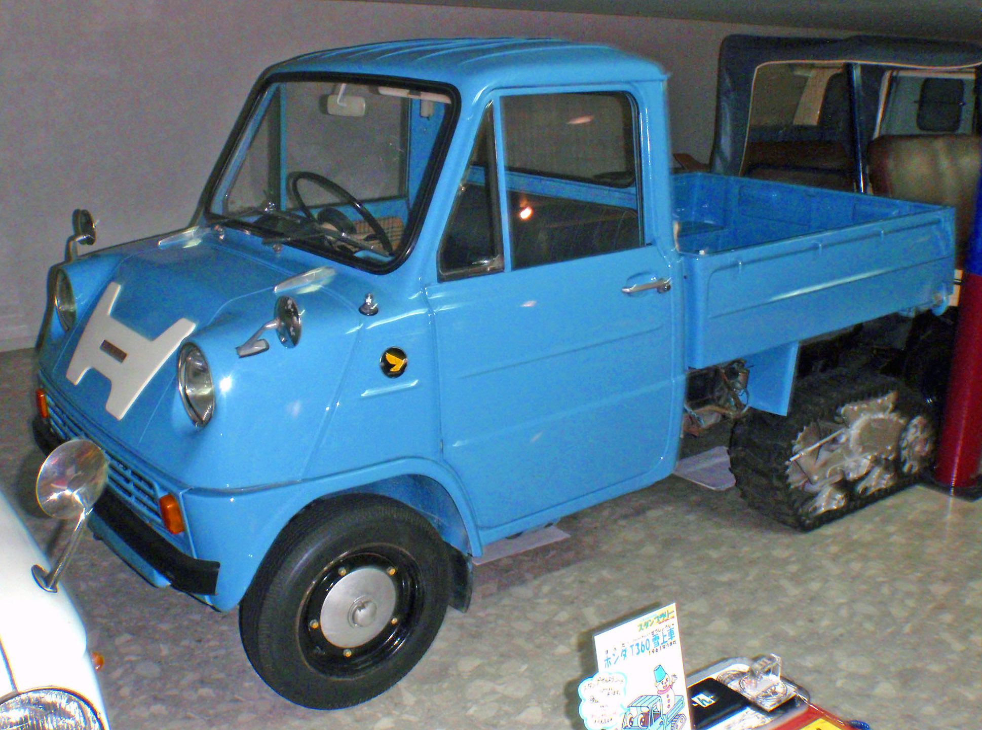 Honda T360 Snow Crawler, one of the only two surviving in Japan.